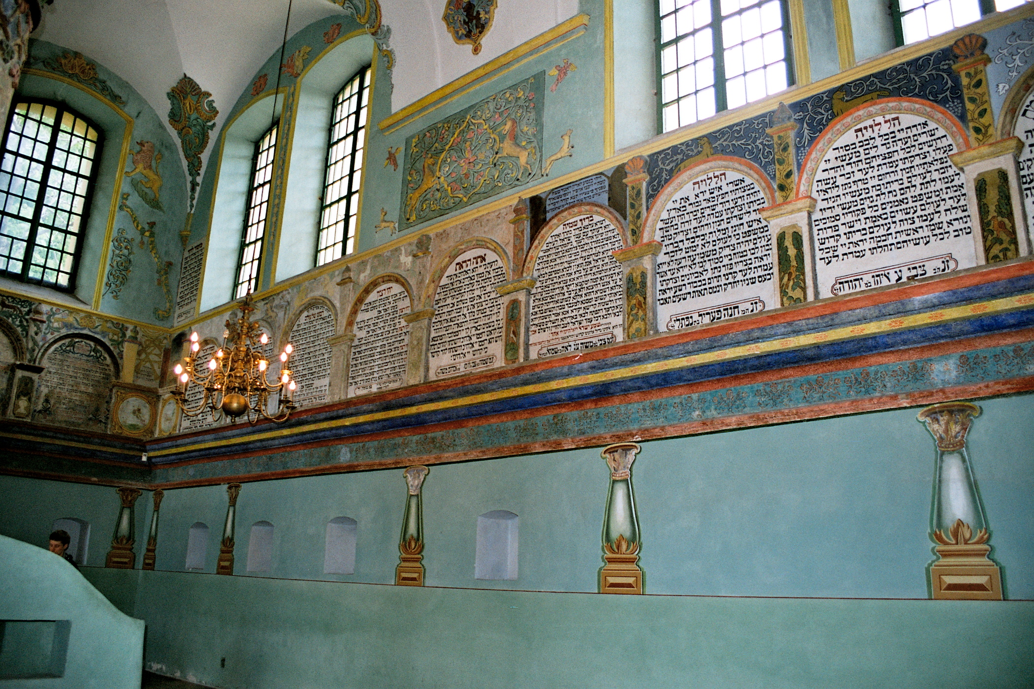 Synagogue in Łańcut